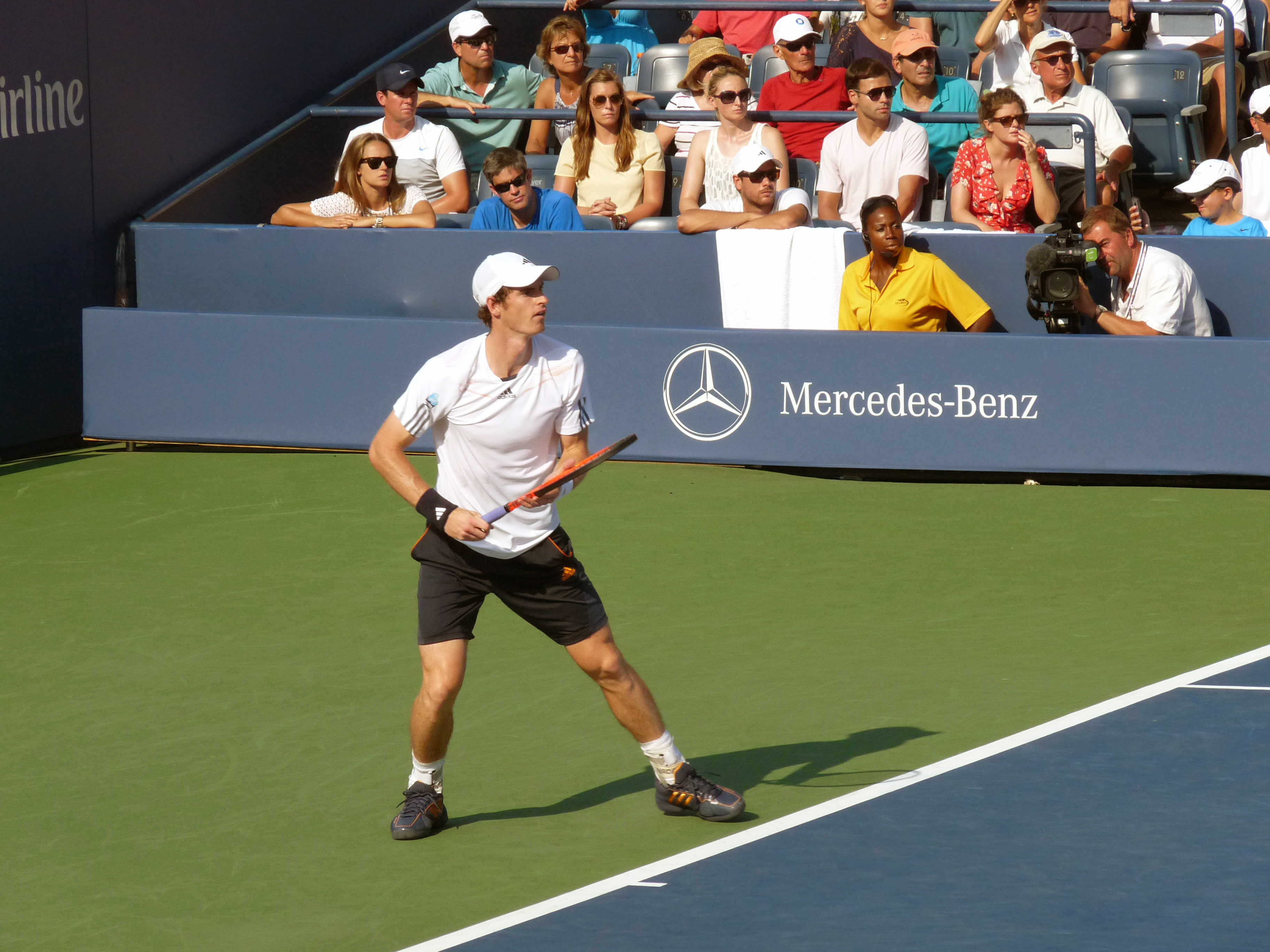 US Open 2012 Men's Singles 3rd Round (Louis Armstrong Stadium) Andy Murray [3] vs.Feliciano López [30] 7–6(7–5), 7–6(7–5), 4–6, 7–6(7–4) Andy Murray v Feliciano López US Open 2012. Third Round on Louis Armstrong Stadium. Murray won 7–6(7–5), 7–6(7–5), 4–6, 7–6(7–4)